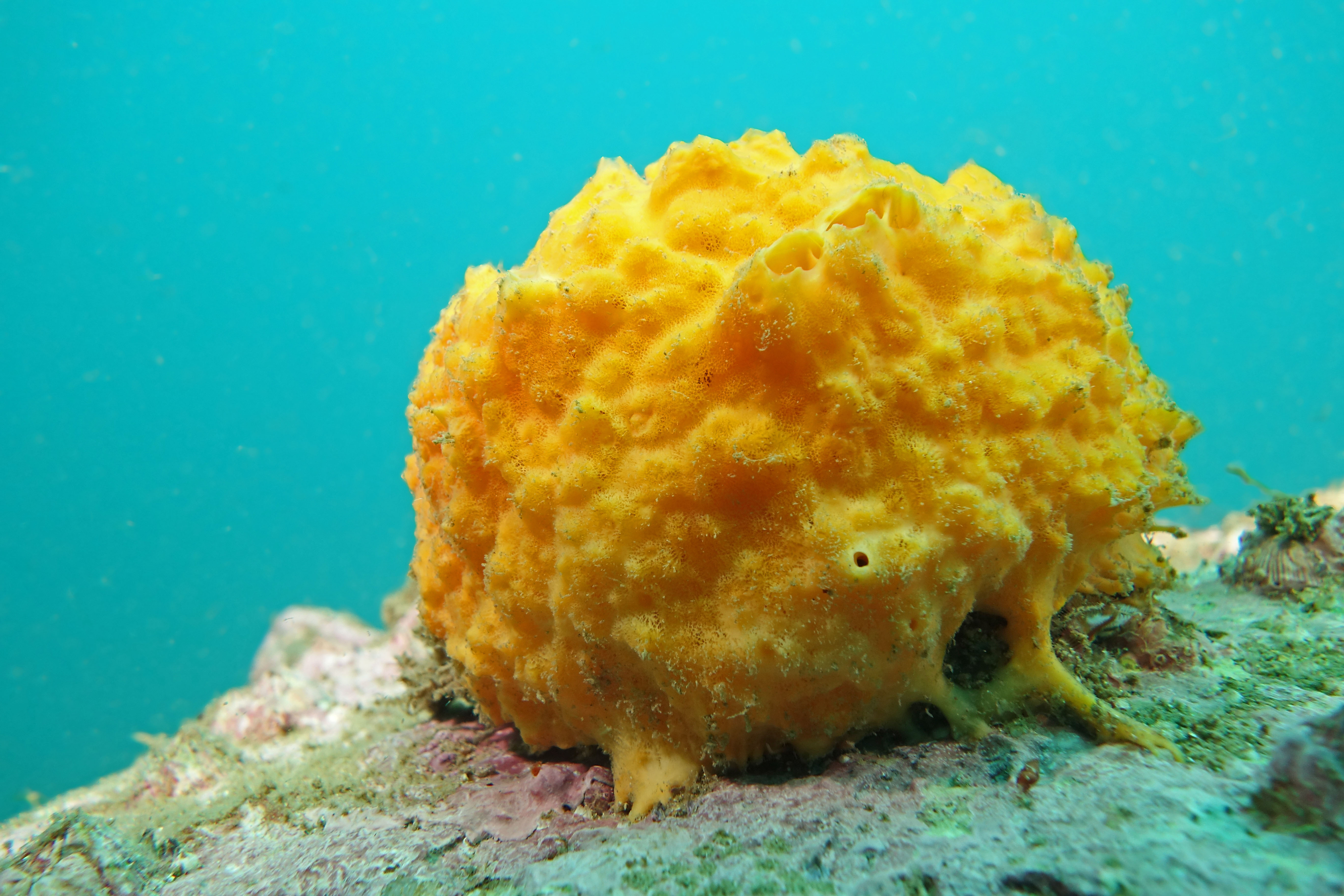 The Ovens / Hole in the Wall, Bangalley Headland, Whale Beach Sydney